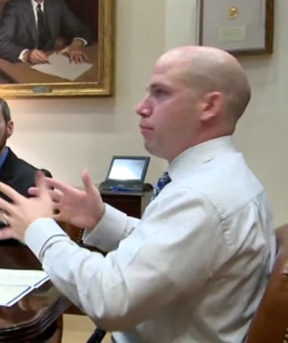 Screenshot from video : U.S President Obama with YouTube video content creators